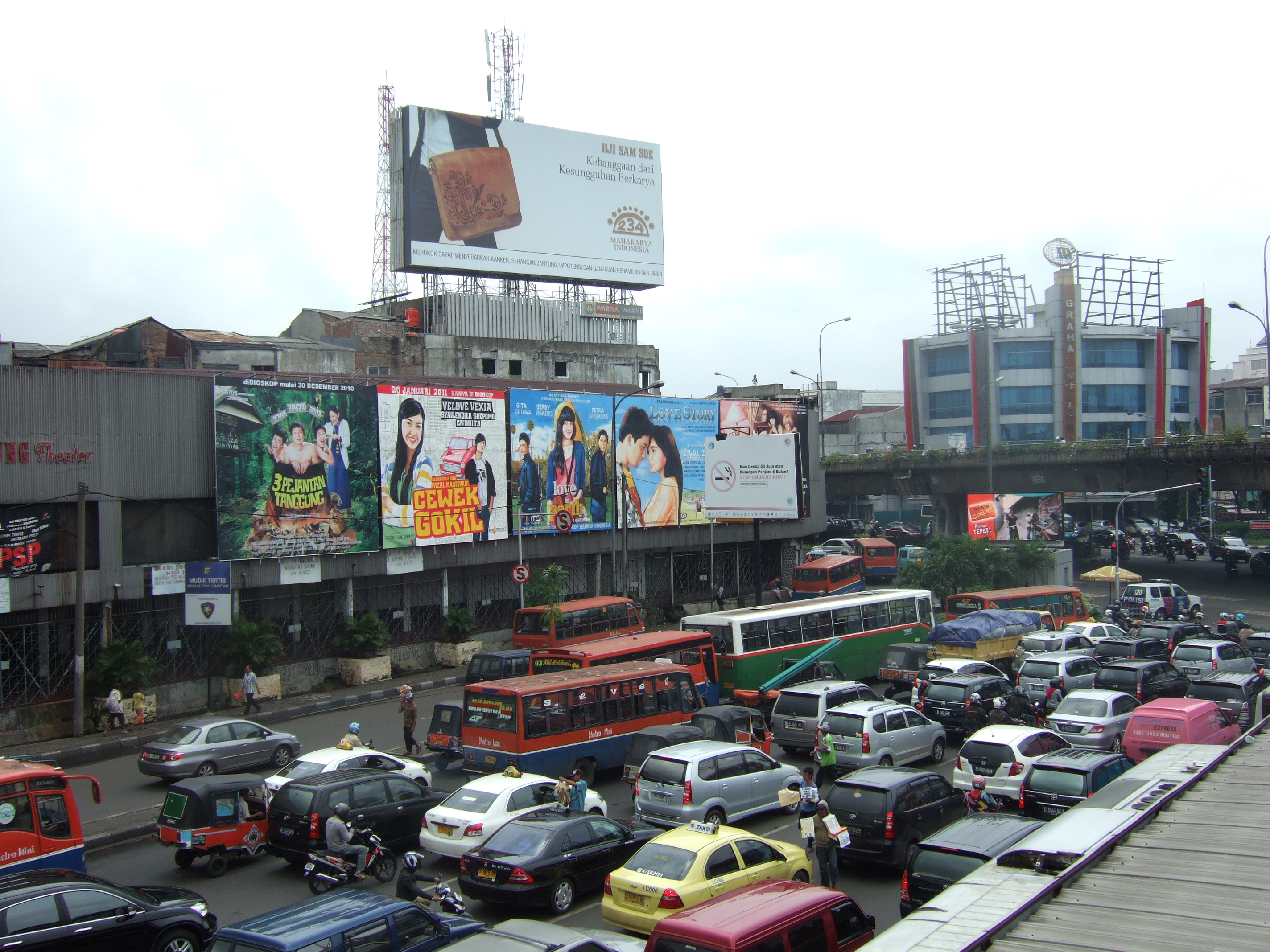 Mulia Agung Theatre, Jalan Kramat Bunder, Jakarta Pusat, Indonesia